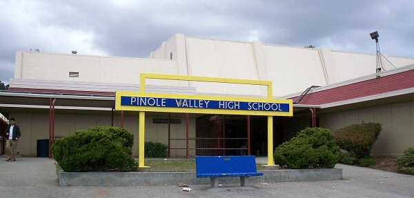 Pinole Valley High School, Pinole, California, USA